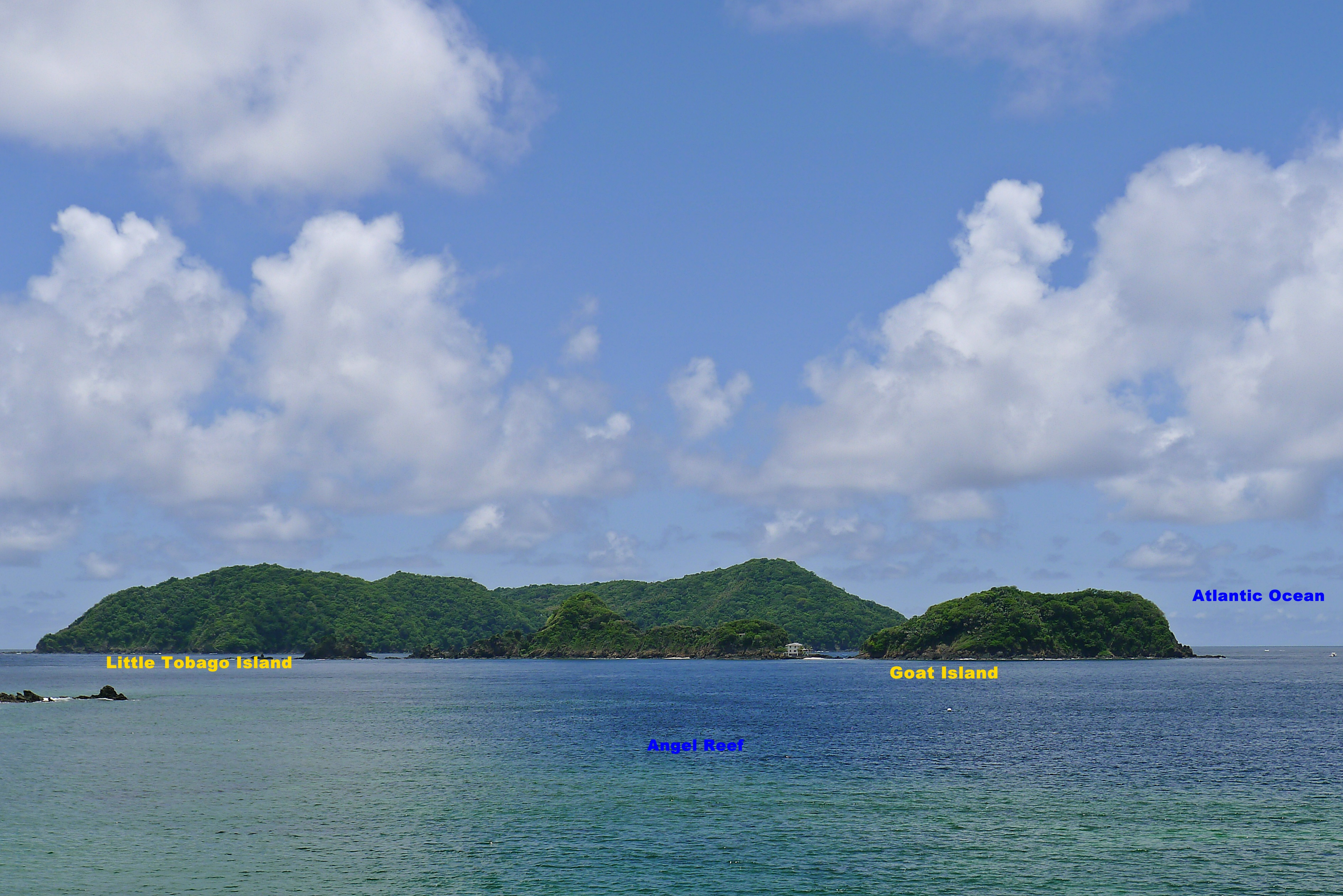 Goat island - a privately owned island off the NE coast of Tobago, West Indies. It is just to the east of the town of Speyside and lies adjacent to the bird sanctuary island of Little Tobago. Scuba diving and snorkelling on the nearby Angel Reef.